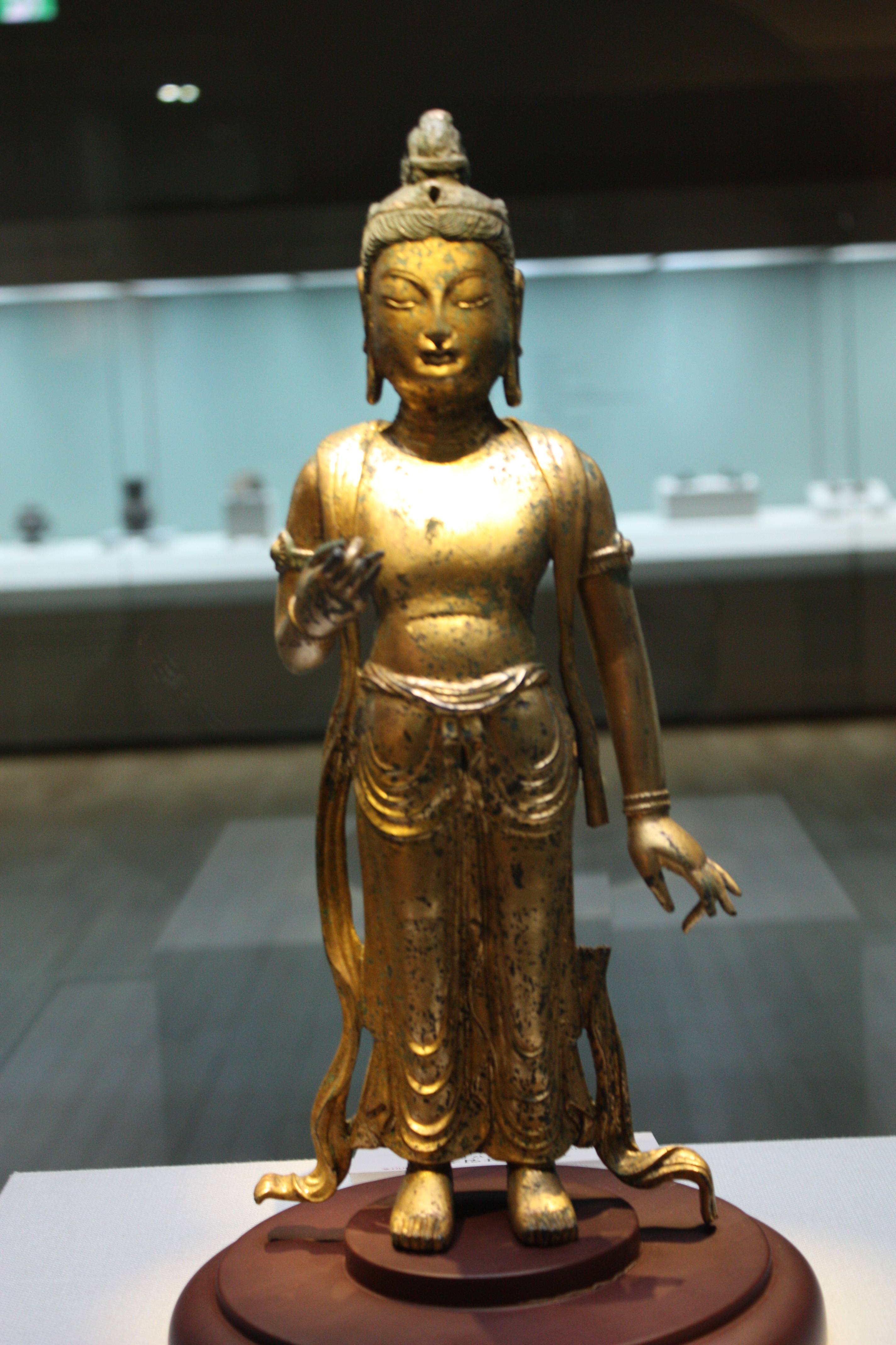 A gilt bronze bodhisattva at the Busan Municipal Museum. A national treasure of South Korea.